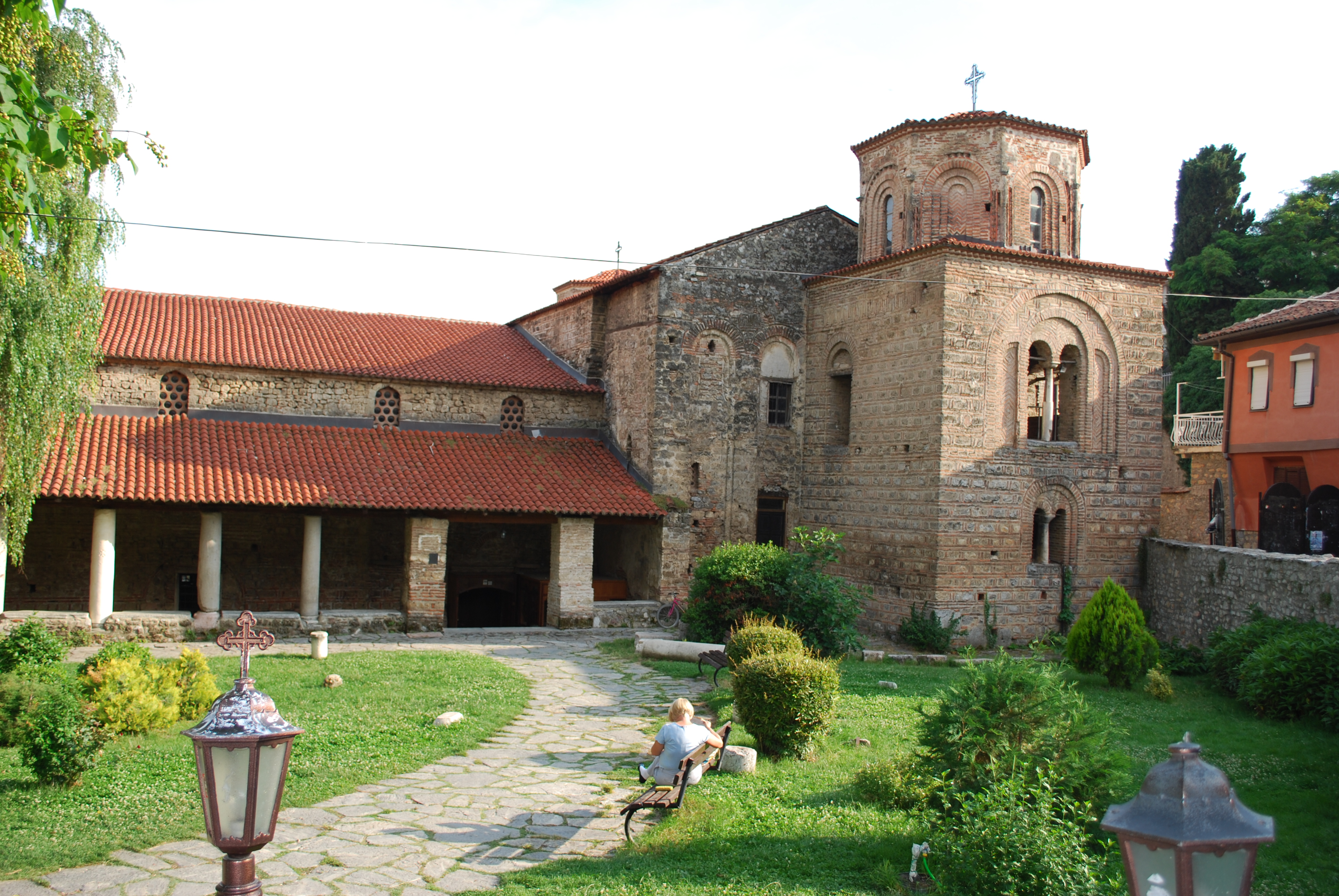 St. Sophia Church in Ohrid, Macedonia.